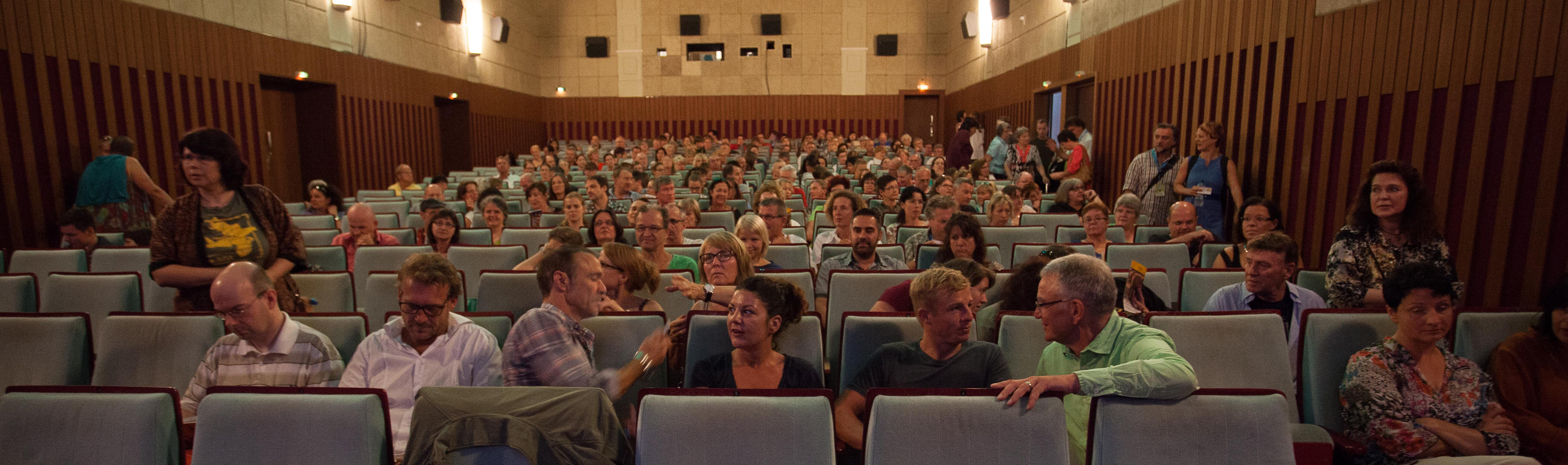 Audience at the NaturVision filmfestival in 2014.